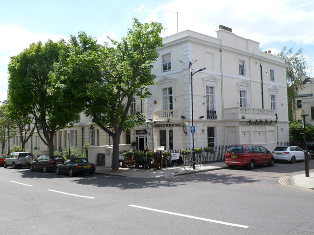 The Bridge House pub and Canal Cafe Theatre, London W2